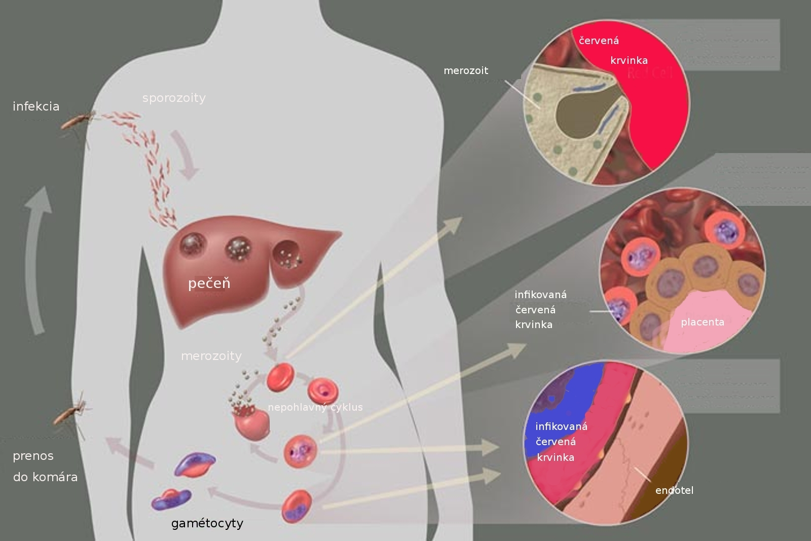 Life cycle of plasmodium